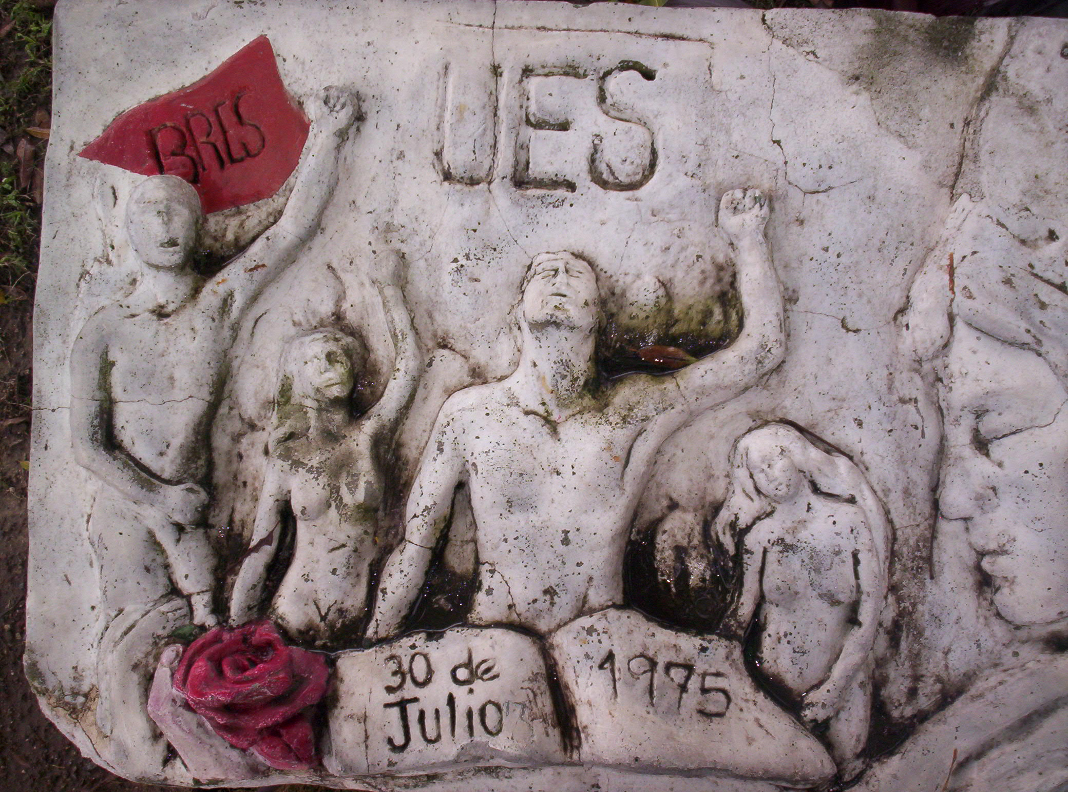 Monumento a los mártires del 30 de julio de 1975. Colocado por los estudiantes de la Universidad de El Salvador sobre la 25Av. Norte.